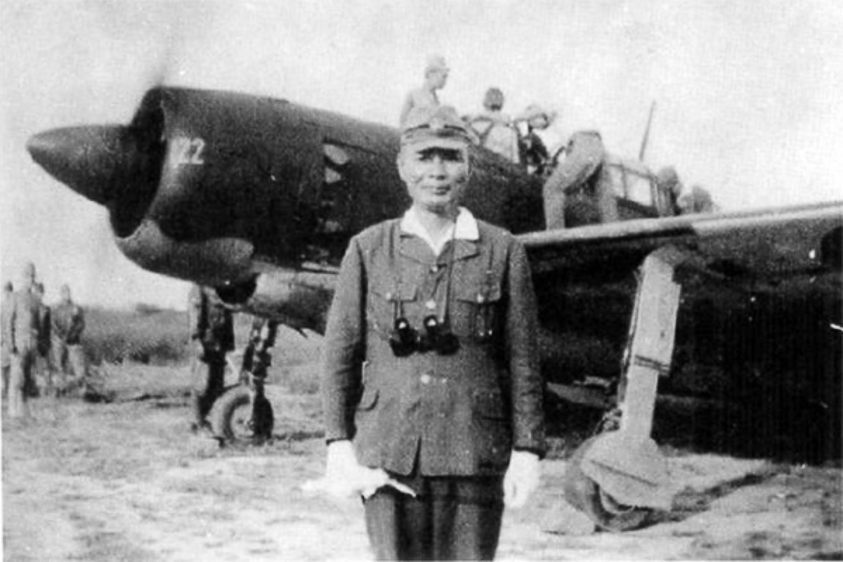 Admiral Matome Ugaki with his Yokosuka D4Y3 posing before final Kamikaze attack off Okinawa (15. August 1945)